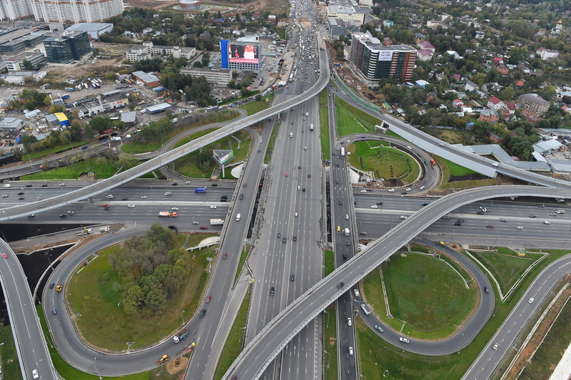 Interchange of MKAD and Mozhayskoe shosse